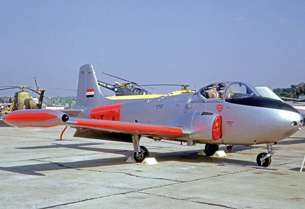 BAC Jet Provost T52 603 of the Iraqi Air Force at Farnborough in 1964